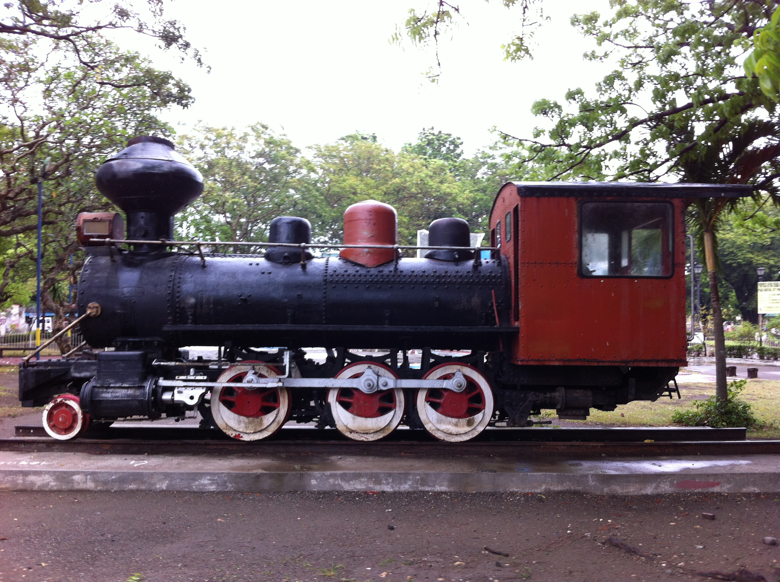 Engine of the Panay Railways on display in plaza Iloilo City